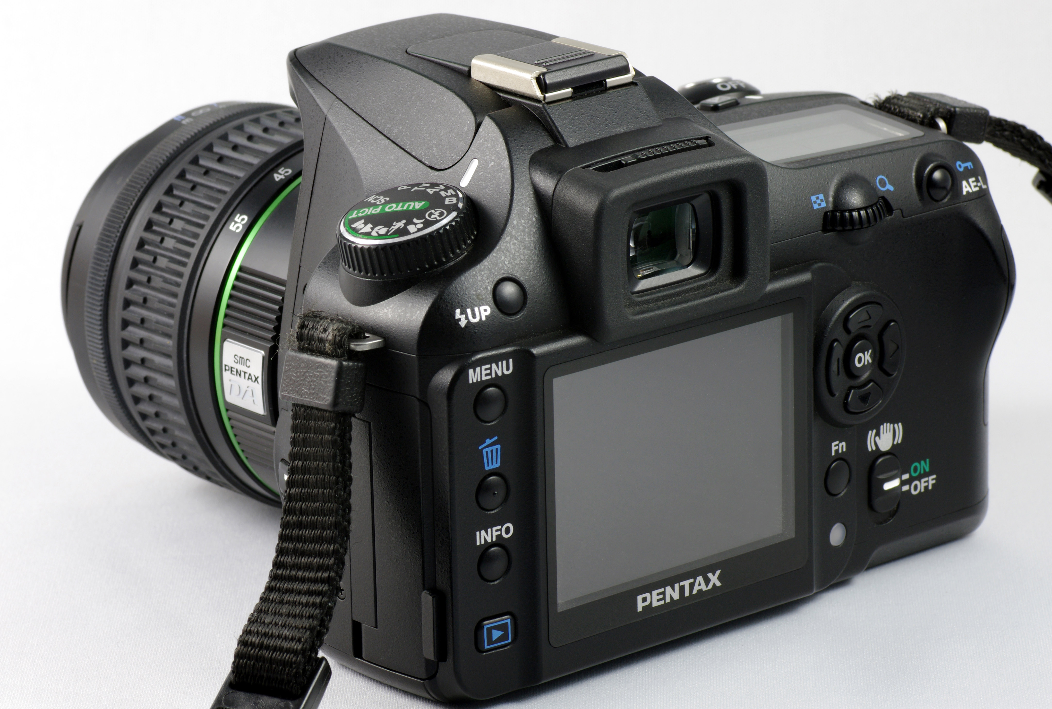 The digital reflex camera Pentax K100D with the kit zoom Pentax smc DA 18-55 mm / 3.5~5.6 AL.